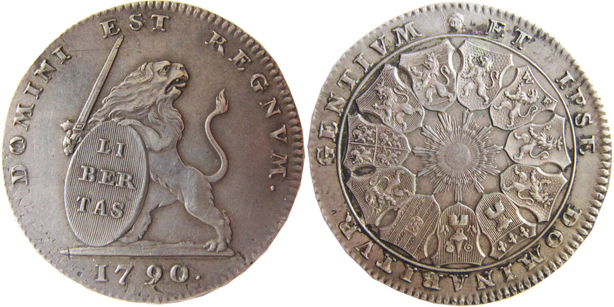 3 Florin piece of the Brabant Revolution (1789-1790)Legend: "DOMINI EST REGNVM / ET IPSE DOMINABITVR GENTIVM" (Psalm 22:29)